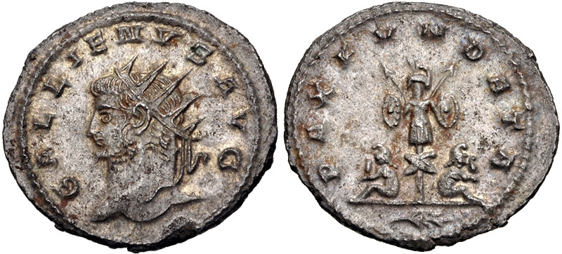 449, Lot: 656. Estimate $75. Gallienus. AD 253-268. Antoninianus (22.5mm, 3.46 g, 12h). Antioch mint. 11th emission, circa AD 264-265 . Radiate head left / PAX FVNDATA, trophy of arms between two seated captives in attitude of mourning; (palm frond). RIC V 652; MIR 36, 1635a; RSC 770a. Toned silvering, minor deposits. Good VF. Ex N. M. McQ. Holmes Collection, bought from Baldwin's, 1997. Geiger (2012, p. 224) suggests that this reverse type refers to the victories of Odaenathus of Palmyra against the Persians.